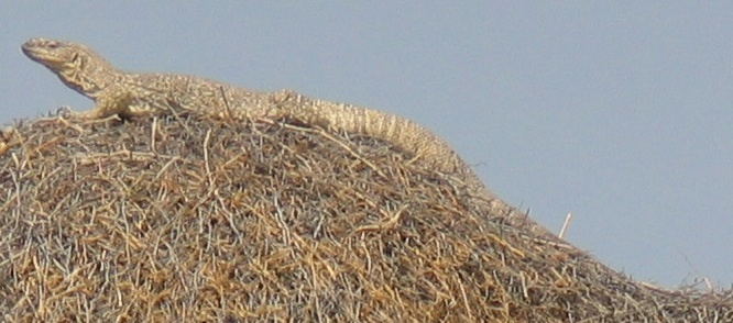 Varanus exanthematicus, Steppenwaran, Namibia